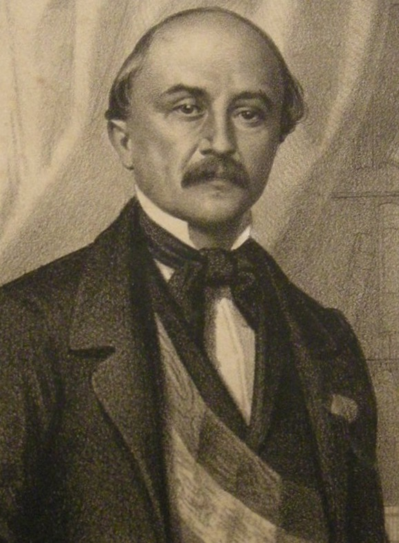 Luigi Carlo Farini